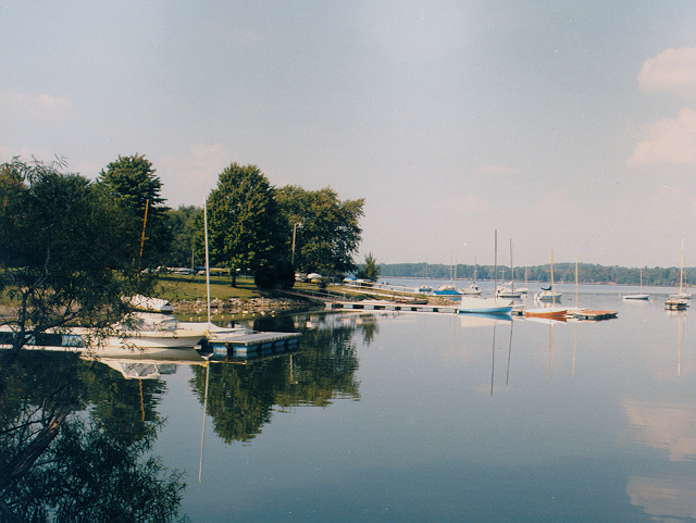 Pymatuning State Park in Crawford County, Pennsylvania, United States